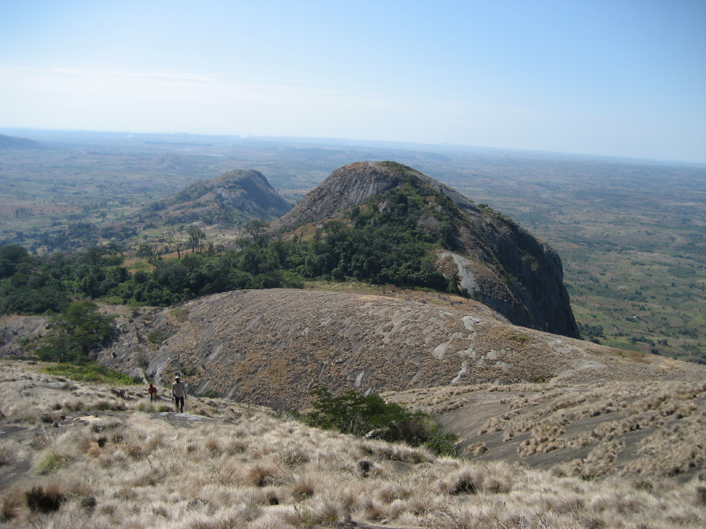 Mount Zembe in Manica province of Mozambique. View down north into the direction of Chimoio.